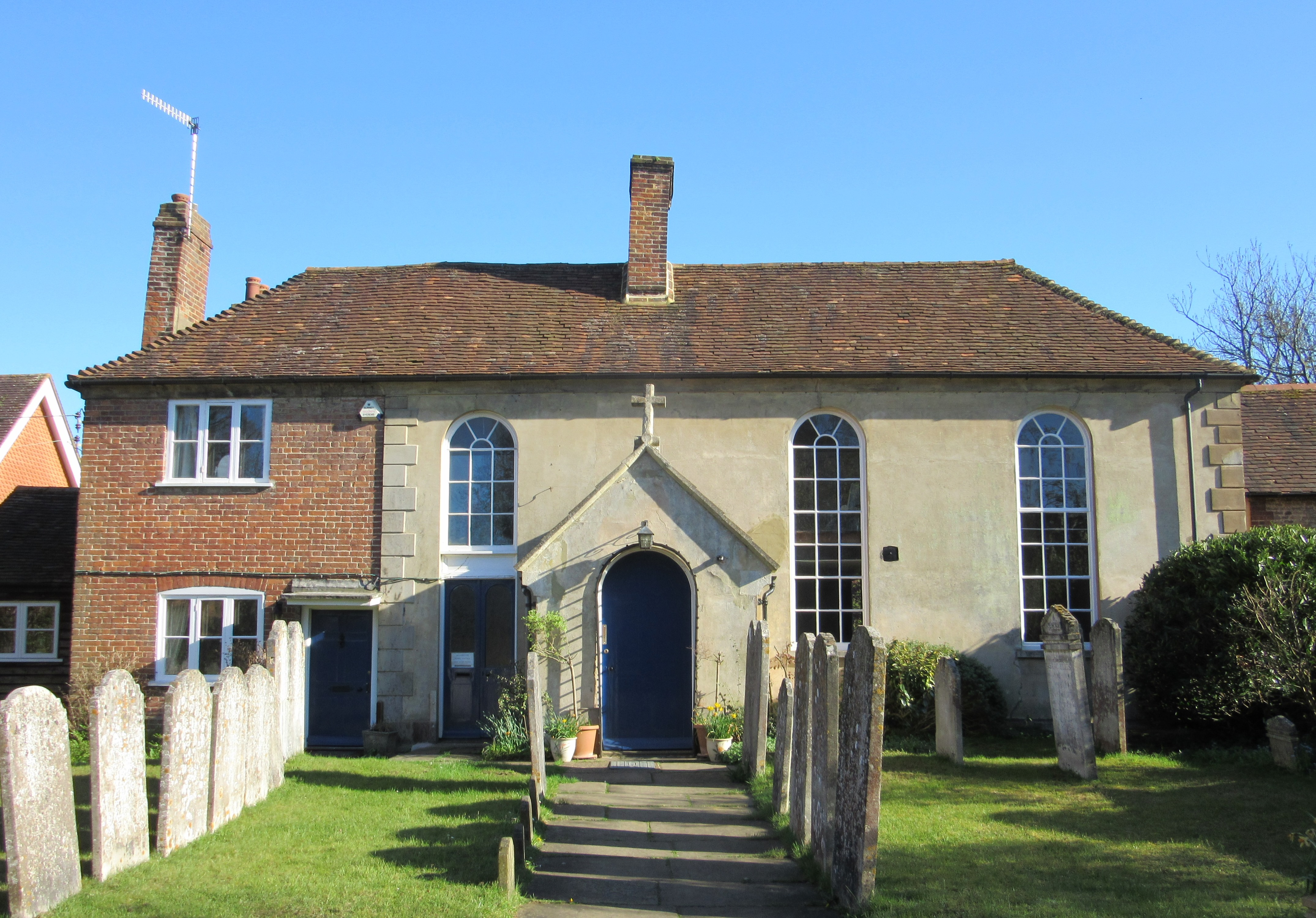 Meadrow Unitarian Chapel, Meadrow, Godalming, Borough of Waverley, Surrey, England.